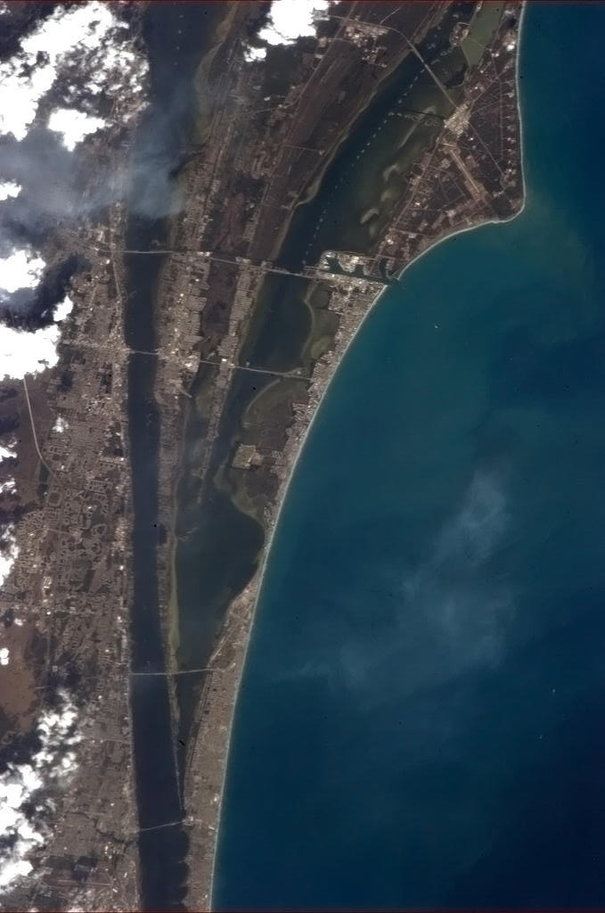 "Cocoa Beach, Florida. Rockets on the right, cruise ships in the middle, fun on the left." Caption by astronaut Chris Hadfield on board the International Space Station. Visible in this photograph is the Florida Space Coast, including Cocoa, Melbourne, Rockledge, Cape Canaveral, Merritt Island, and Cocoa Beach.